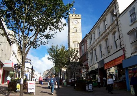 Redruth